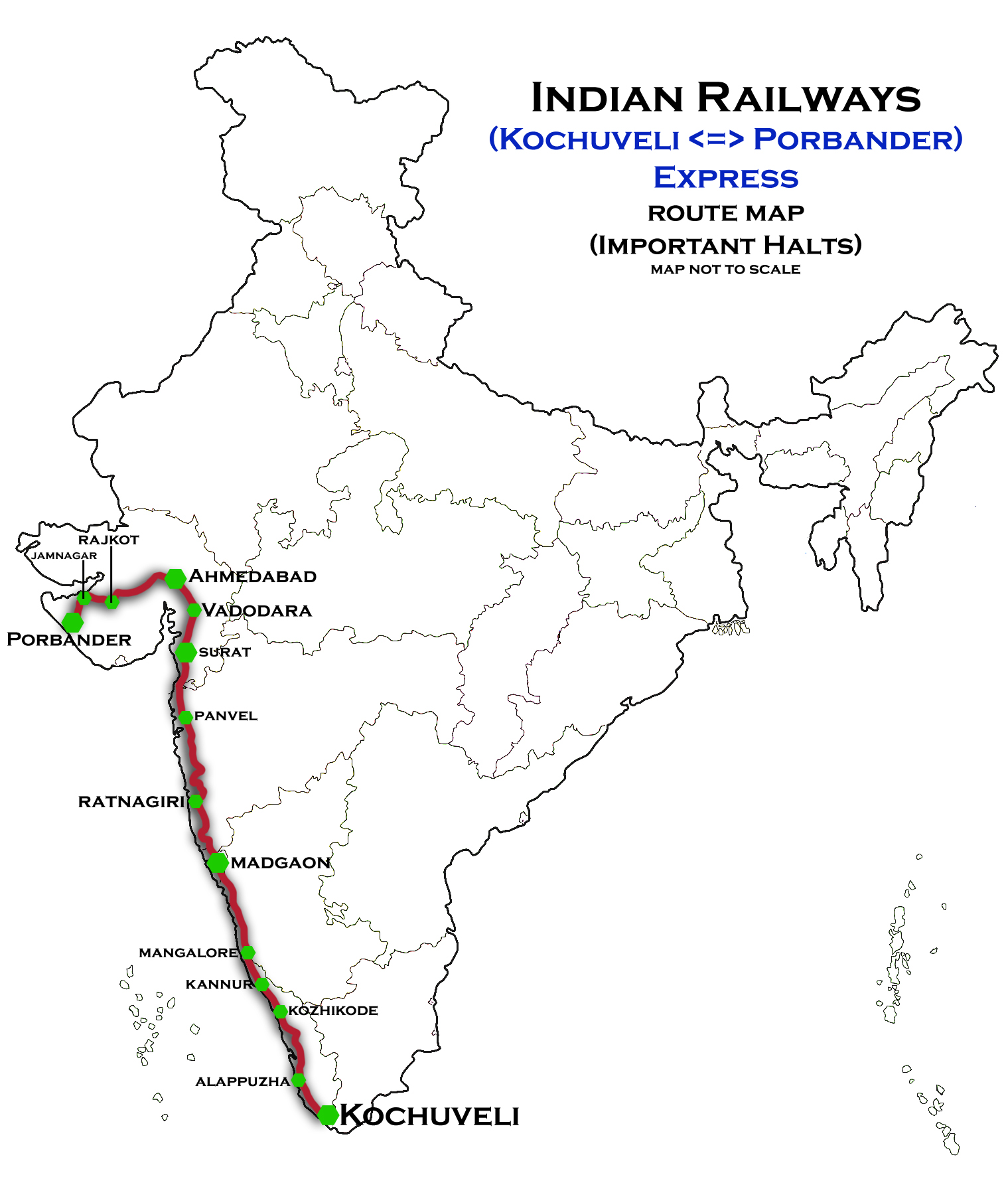 (Porbander - Kochuveli) Express Route map